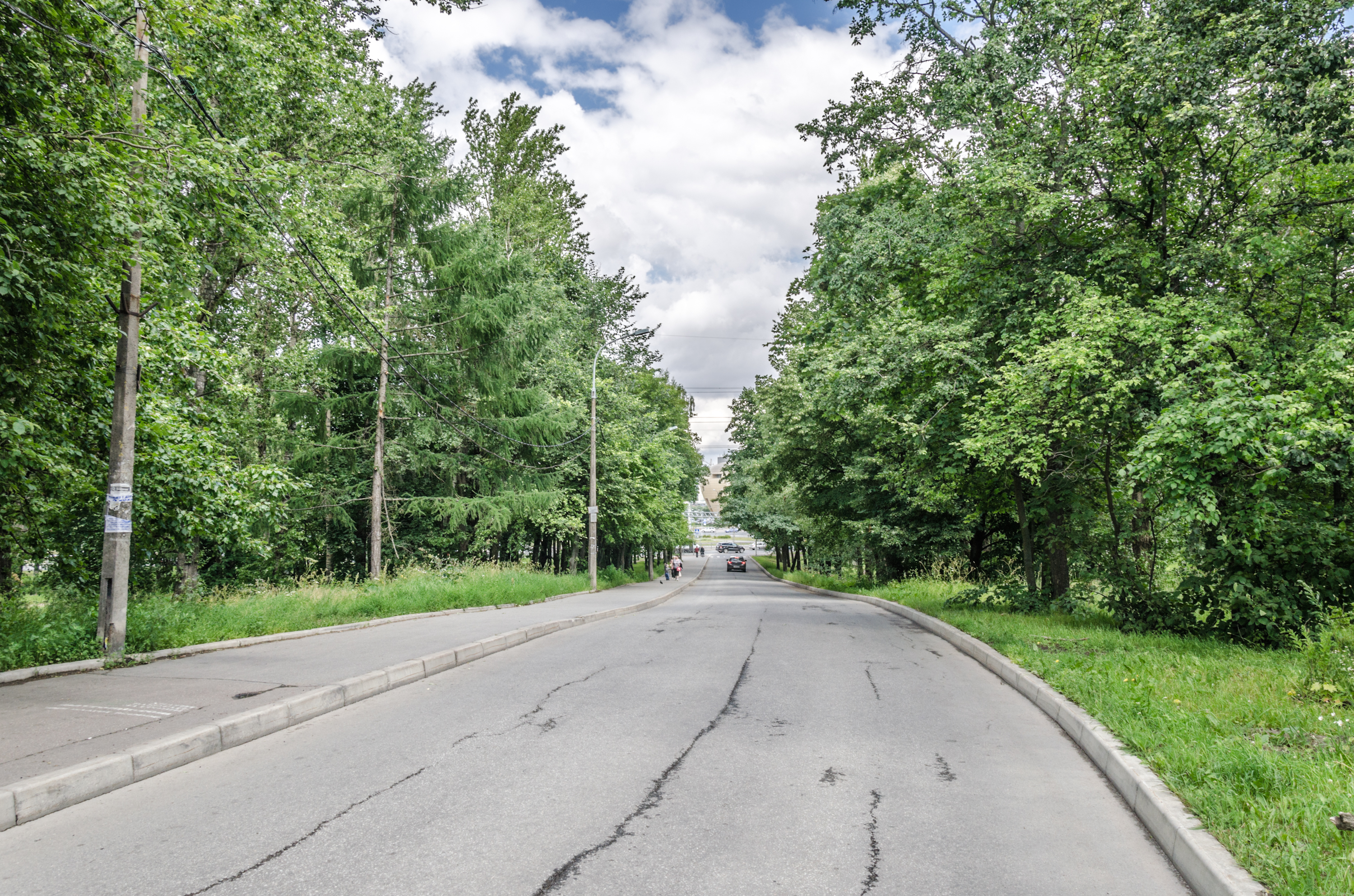 2nd Komsomolskaya street in Saint Petersburg, Russia